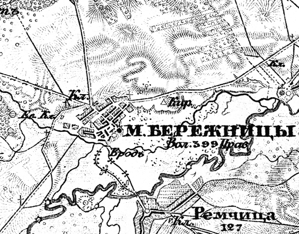 Berezhnytsia on the map "Военно-топографическая карта Российской Империи" (known as "Schubert's map"), XX 5, 1866-1887 (issued in 1913).